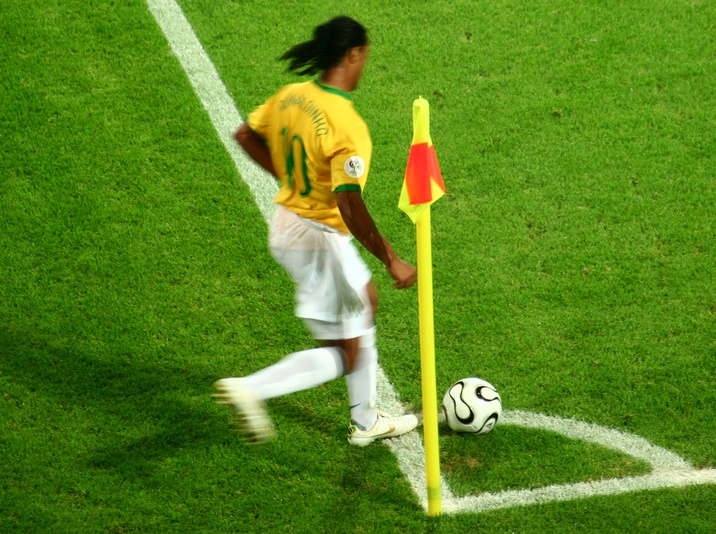 Ronaldinho takes a corner kick during the World Cup in Germany